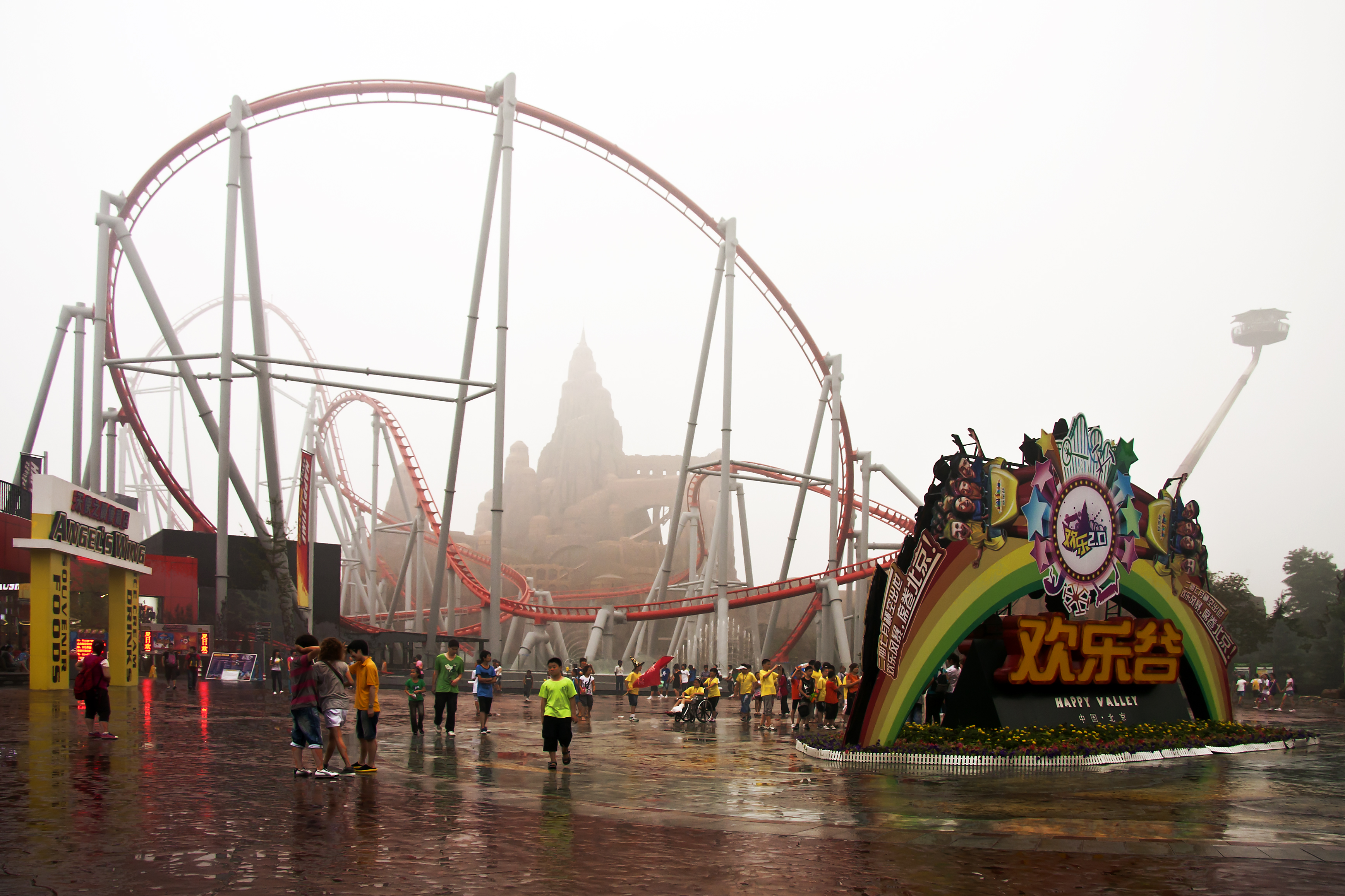 Happy Valley theme park in Beijing, China.